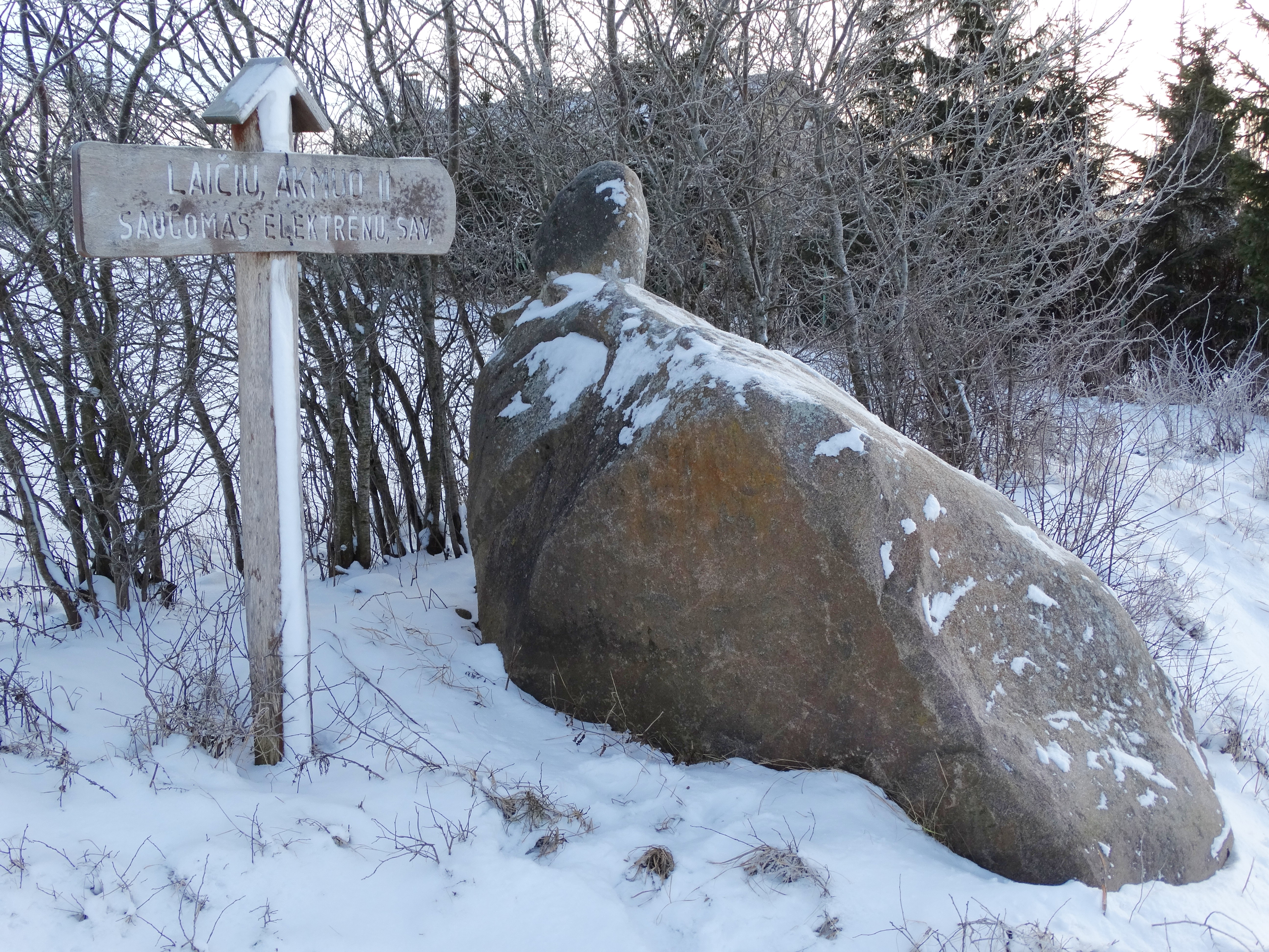 Stone II, Laičiai, Elektrėnai Municipality, Lithuania